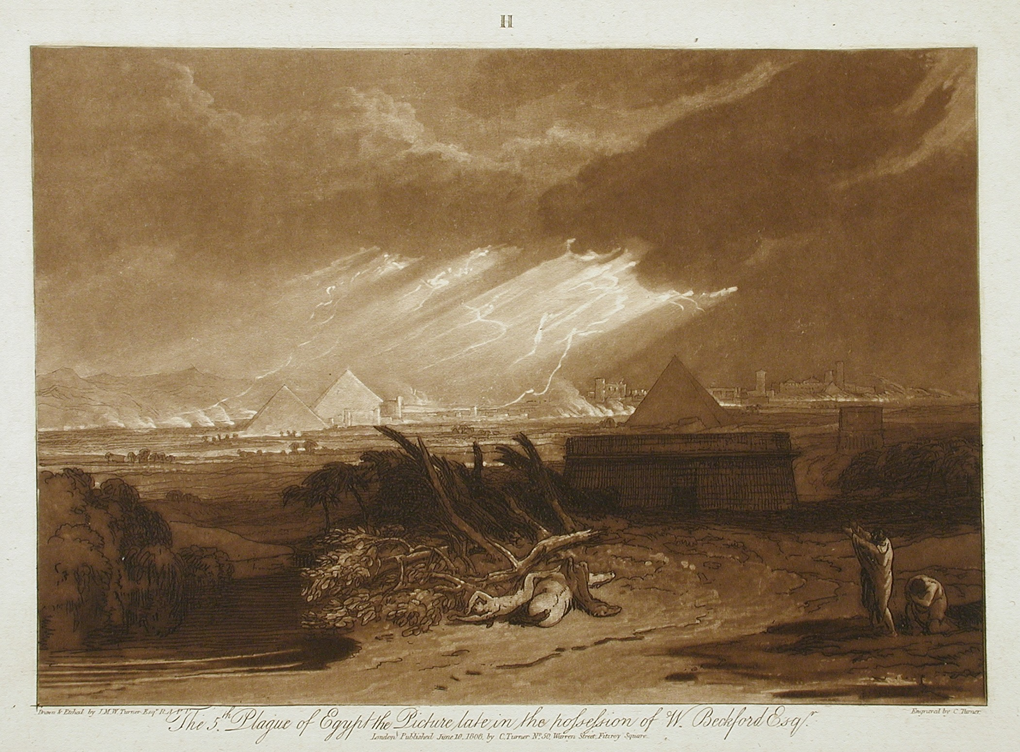 England, 1808 Series: Liber Studiorum, Part III Prints; etchings Mezzotint and etching Plate: 8 1/8 x 11 3/8 in. (20.64 x 28.89 cm) Gift of Rabbi William M. Kramer (M.91.322.31) Prints and Drawings